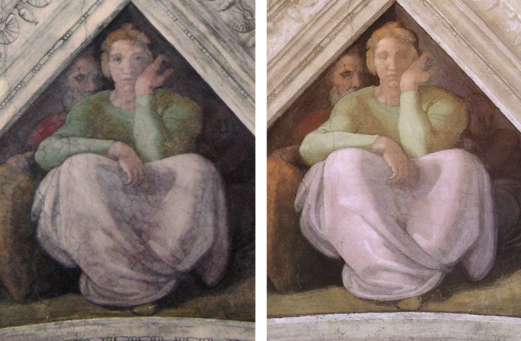 Sistine Chapel, the Jesse Spandrel before and after failed restoration.